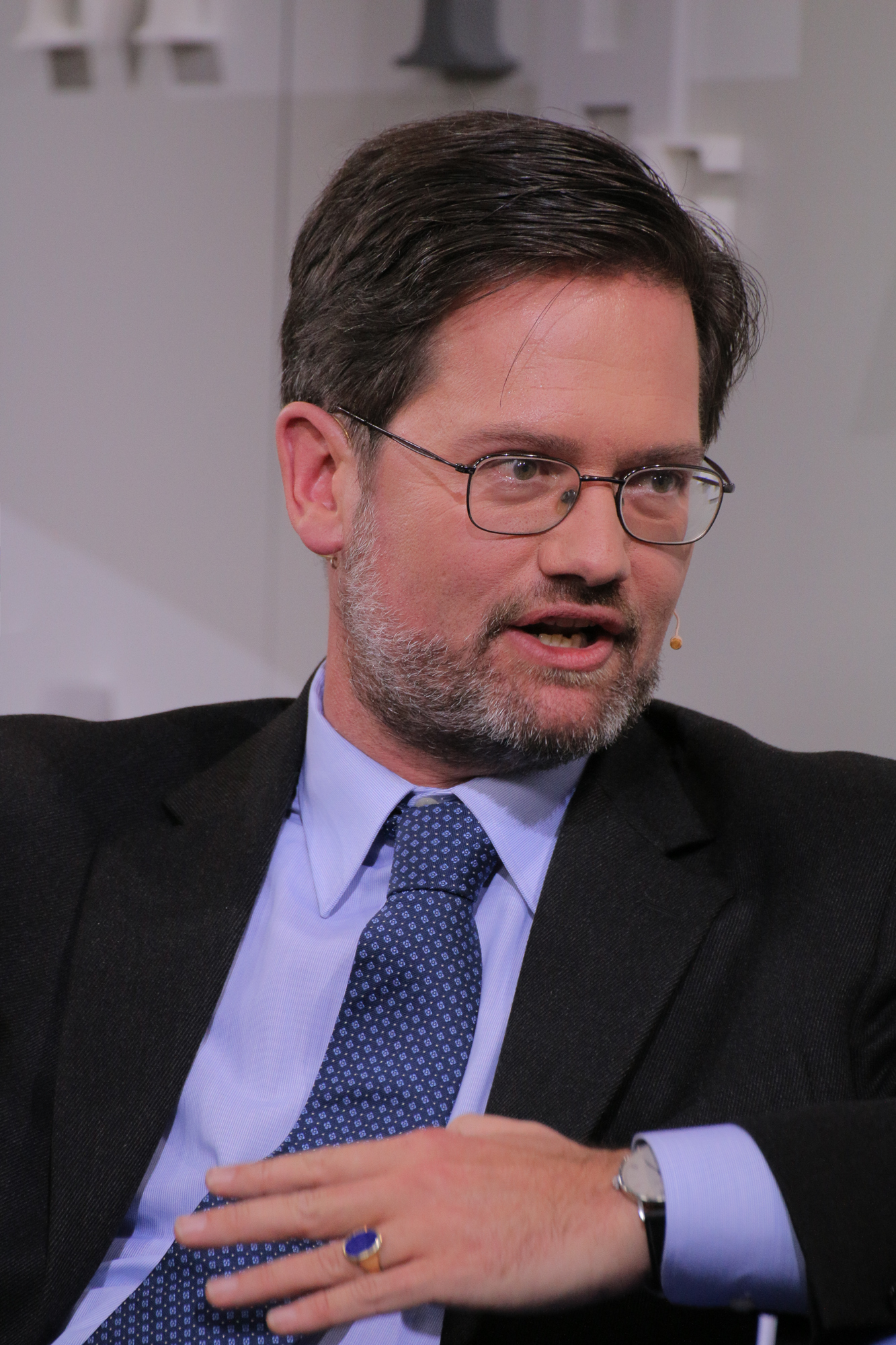 Arne Karsten during a talk on the blue sofa at the 2013 Frankfurt Book Fair